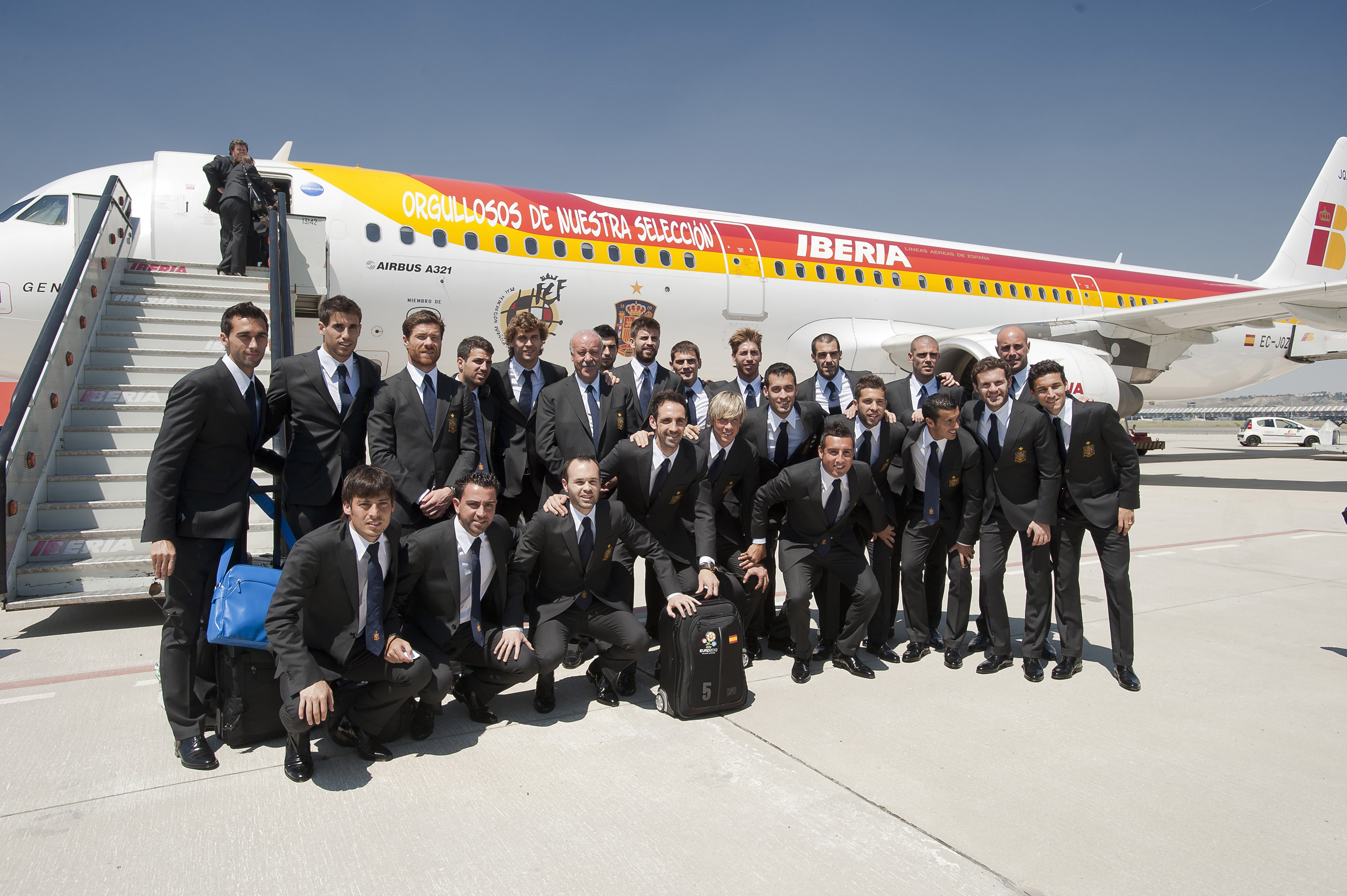 Spain's national football team at Madrid Barajas Airport just before boarding a specially designated Iberia A321 to play in the Eurocup 2012 in Gdansk, Poland. (The lettering on the plane reads, "Proud of our team.")